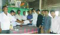 ফলাফল প্রধান শিক্ষকের হাতে তুলে দিচ্ছেন সহকারি শিক্ষকবৃন্দ